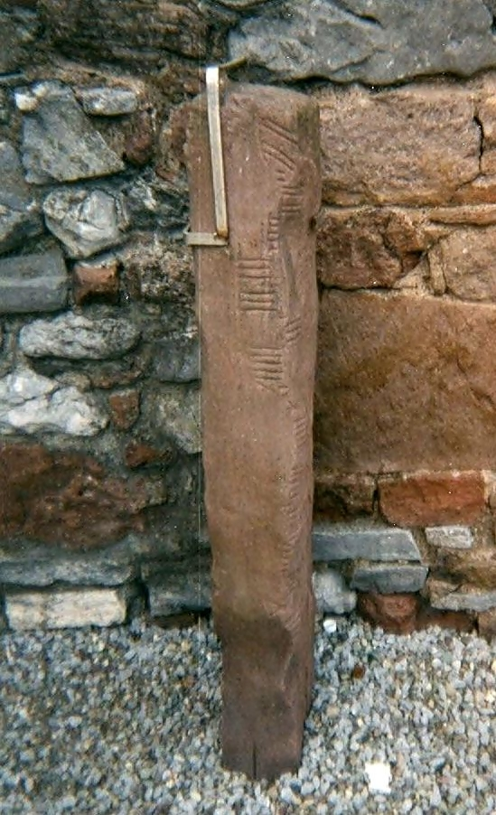 An example of an ogham stone in the ground of Ratass Church in Tralee, Co. Kerry, CISP RATAS/1 The inscription was discovered in 1975; it had been built into the sides of a 19th-century tomb in ths southwest corner of the church, and is now on exhibit inside the church. The stone slab measures 134cm x 30cm x 19cm. The iscription reads [.]NMSILLANNMAQFATTILLOGG interpreted as [A]NM SILLANN MAQ FATTILLOGG Literature: Thomas Fanning and Donncha Ó Corráin, "An Ogham stone and cross-slab from Ratass Church, Tralee", JKAHS 10 (1977), pp. 14–18.